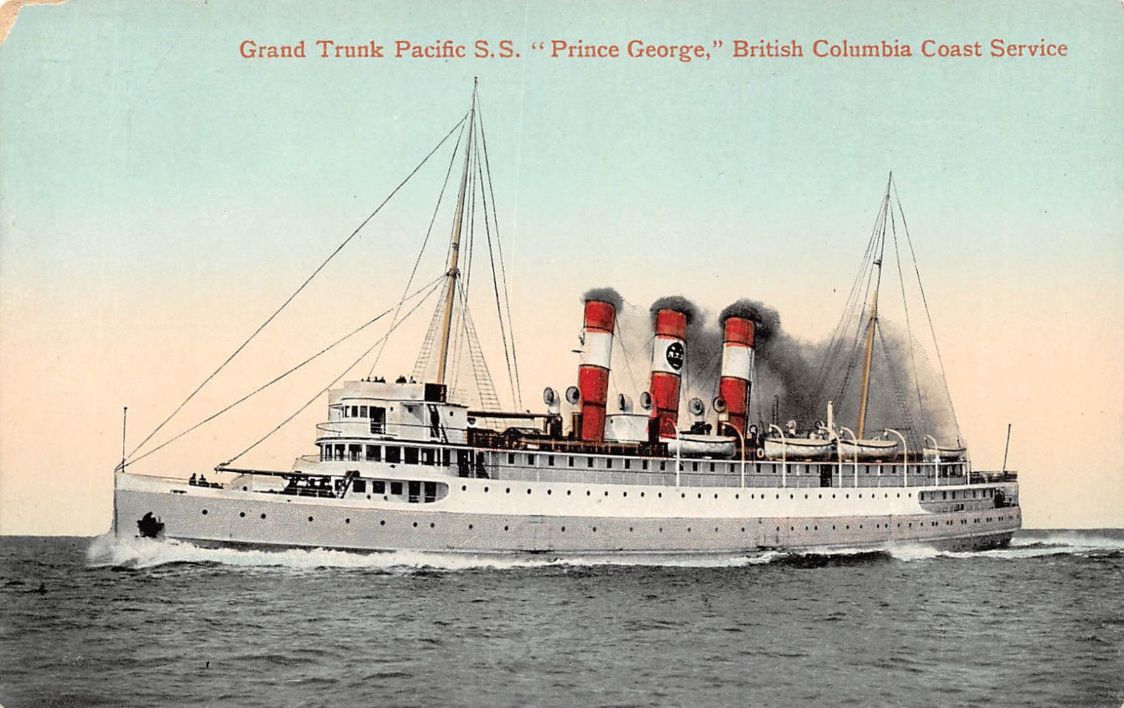 "Grand Trunk Pacific S.S. "Prince George," British Columbia Coast Service" The Valentine & Sons' Publishing Co., Ltd. Montreal and Toronto. Printed in Great Britain. The Grand Trunk Steamship Prince George, and her sister ship the SS Prince Rupert, served the coast of British Columbia and Alaska. Originally these vessels served regular runs from Seattle to Victoria, Vancouver, Prince Rupert and Stewart, Alaska. Seattle and Victoria were dropped from the route after a few years and Skagway, Alaska, was added. The Prince George served briefly as a Royal Canadian Navy hospital ship in 1914. From 1925, ownership of both Princes was transferred along with the Grand Trunk Pacific Railway system to the Government of Canada to be operated as part of the Canadian National Railway. In 1910 Prince Rupert was beginning to develop into a city. Both the Prince ships were built in 1909. The Prince George was completed three months later. By 1910 both ships began service on the coast of British Columbia. In 1945 the Prince George was lost after it caught fire and destroyed in Ketchikan, Alaska. Her sister ship survived and stayed in service till her retirement in 1956. After the loss of the Prince George, CN put a contract for a second (new) Prince George. This ship was launched October 6, 1947, and placed in service on the Alaska route in June 1948.